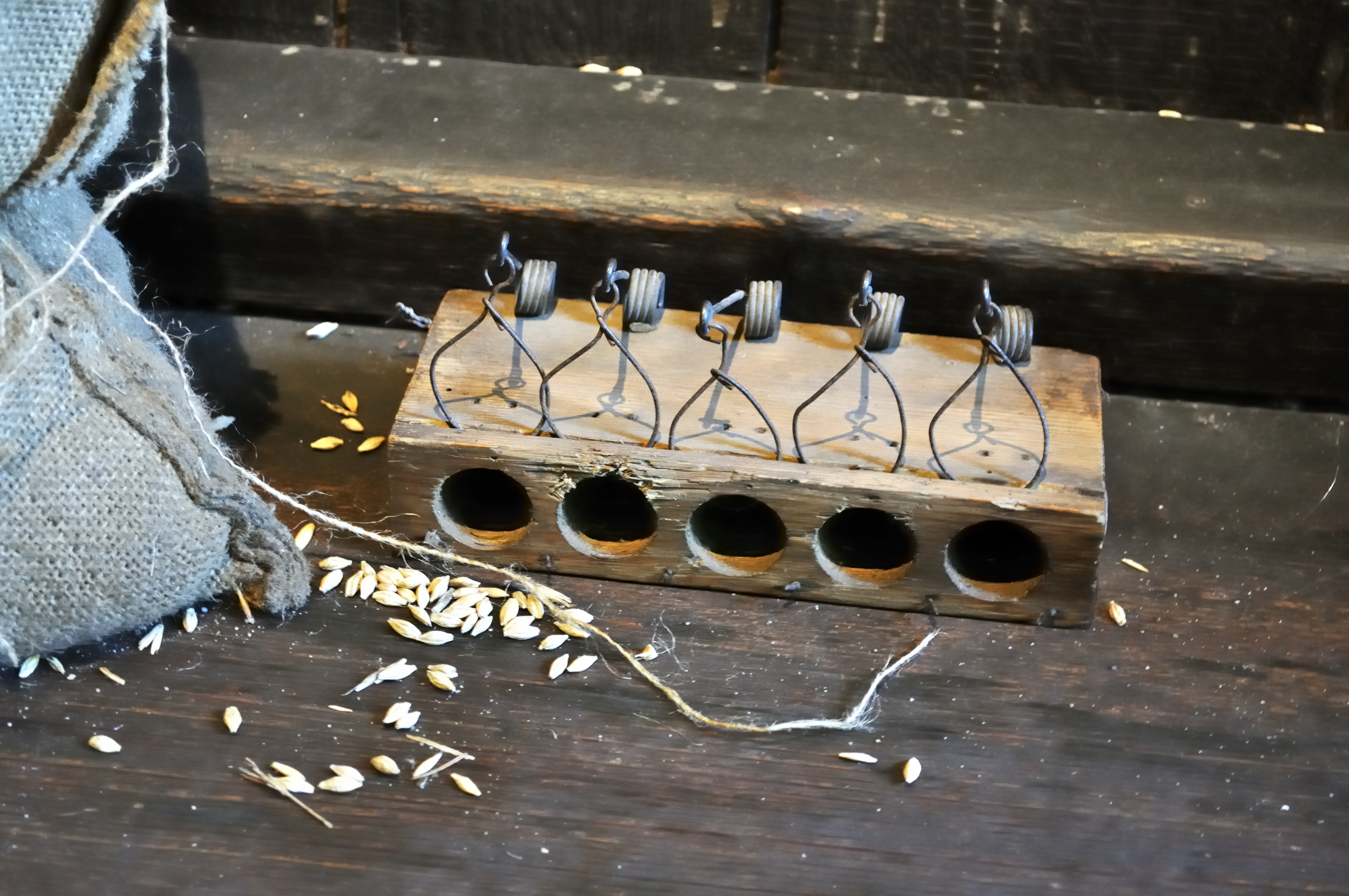 Picture taken in Malborg after Wikimania 2010 conference. Mousetrap in the mill.